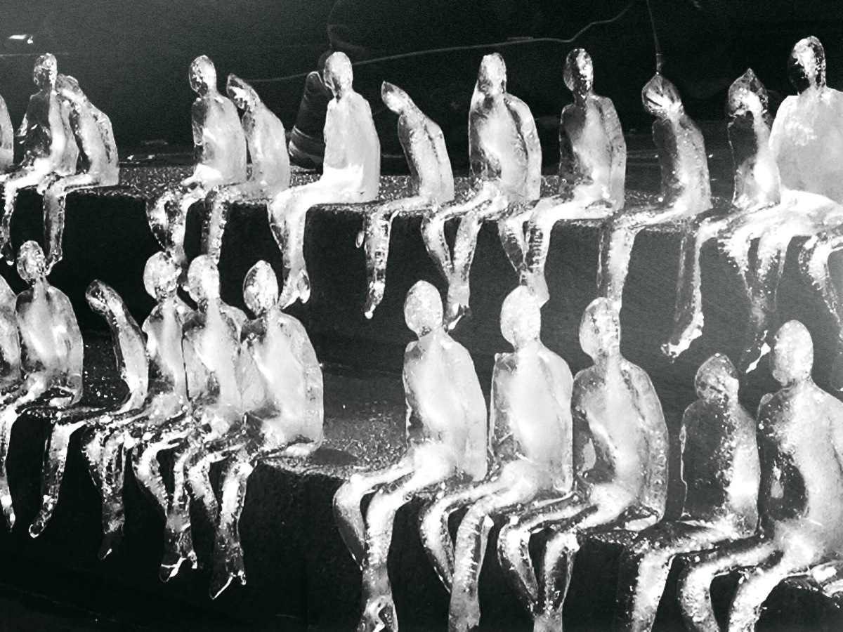 An art installation featuring 5,000 ice sculptures celebrating the common man and honouring those that sacrificed their lives in WW1.